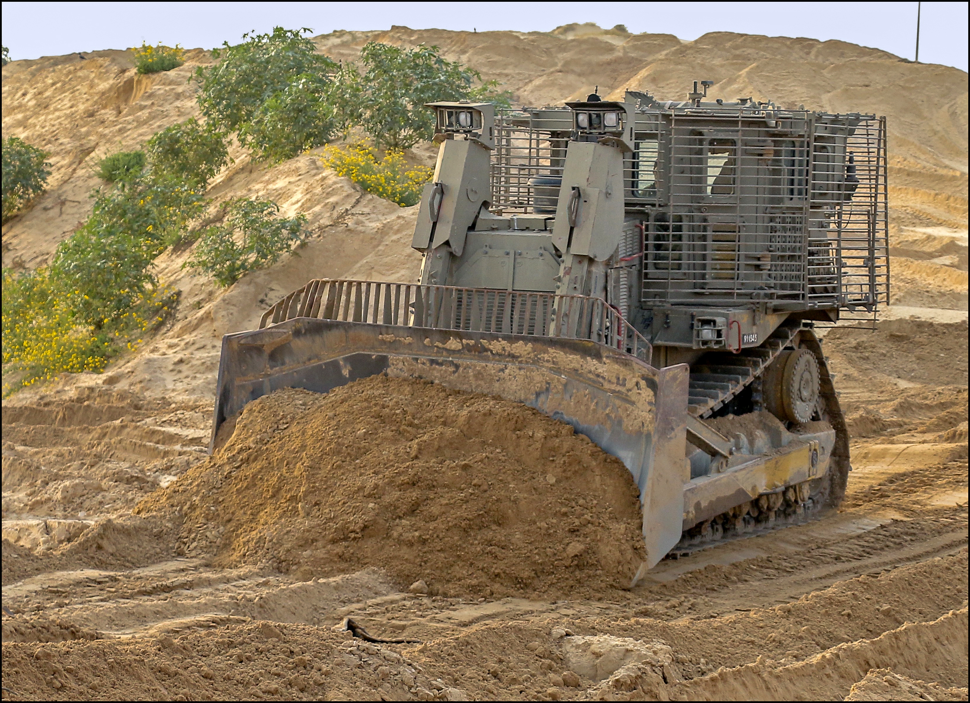 IDF Caterpillar D9R armored bulldozer